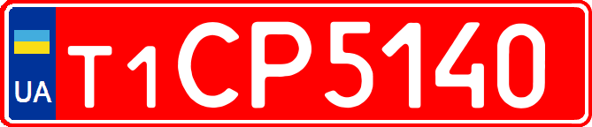 Temporary license plate of Ukraine issued by car dealer for 10 days. Version of 2015